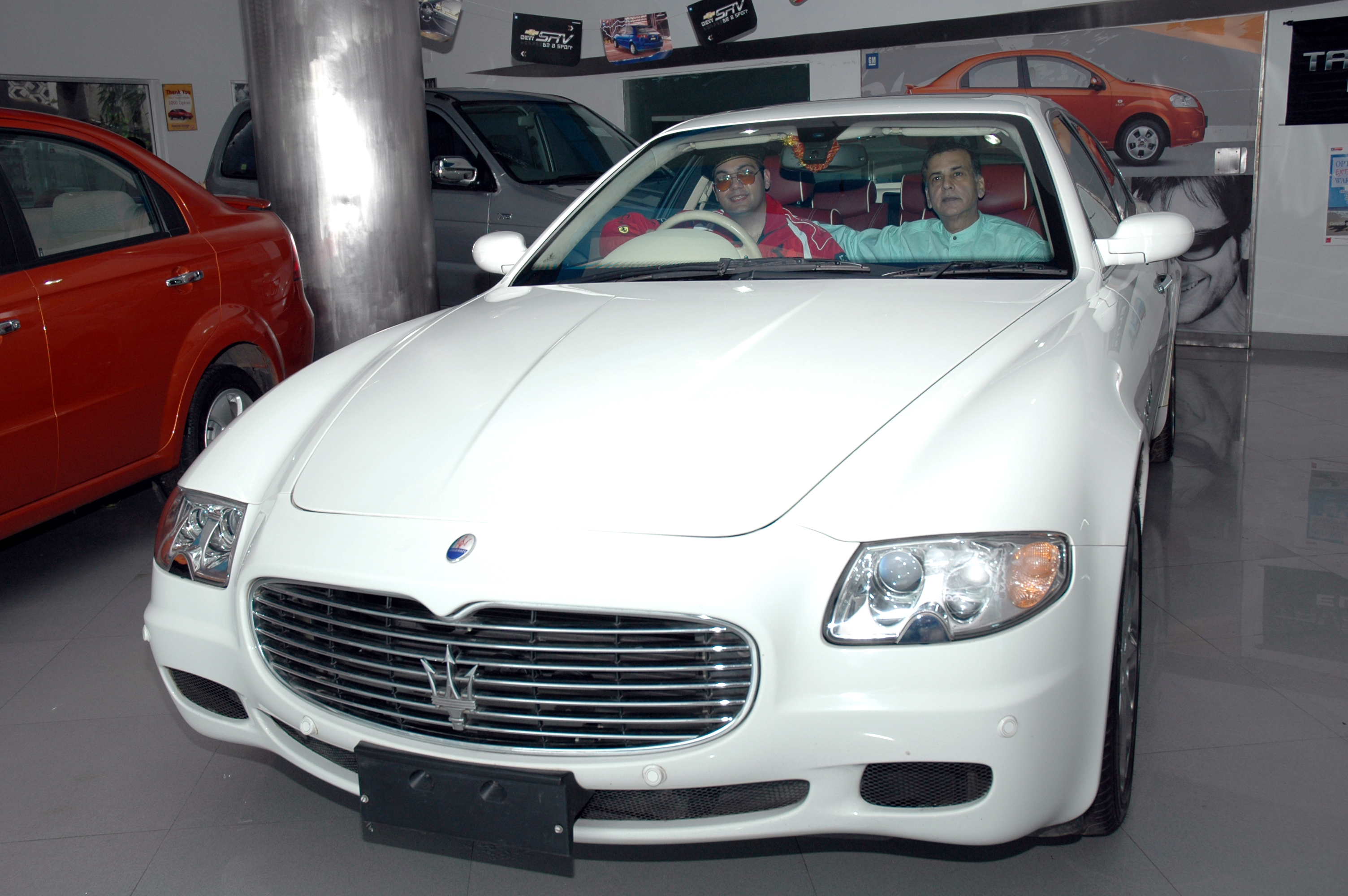 Vijay Arora with Son